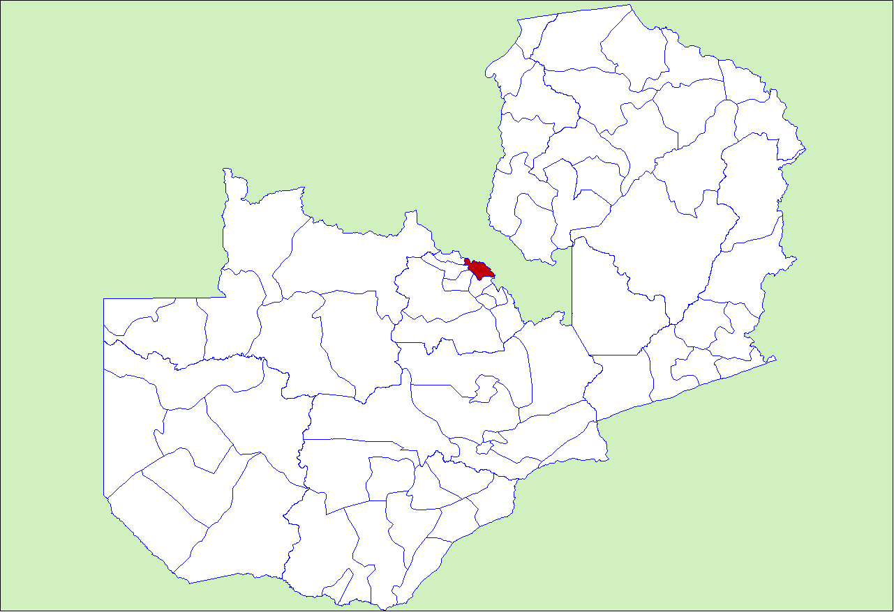 District locator in Zambia